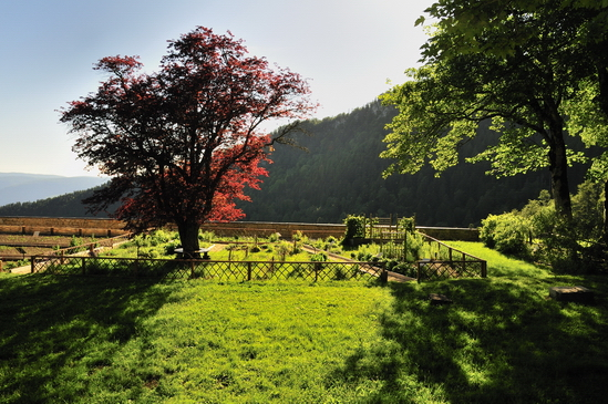 The gardens of the Carthusian Monastery